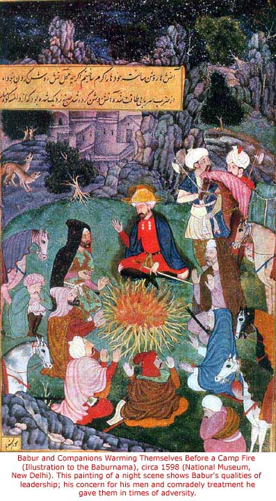 The "Memoirs of Babur" or Baburnama are the work of the great-great-great-grandson of Timur (Tamerlane), Zahiruddin Muhammad Babur (1483-1530). The Baburnama tells the tale of the prince's struggle first to assert and defend his claim to the throne of Samarkand and the region of the Fergana Valley. After being driven out of Samarkand in 1501 by the Uzbek Shaibanids, he ultimately sought greener pastures, first in Kabul and then in northern India, where his descendants were the Moghul (Mughal) dynasty ruling in Delhi until 1858. The miniatures are from an illustrated copy of the Baburnama prepared for the author's grandson, the Mughal Emperor Akbar. It is worth remembering that the miniatures reflect the culture of the court at Delhi; hence, for example, the architecture of Central Asian cities resembles the architecture of Mughal India. Nonetheless, these illustrations are important as evidence of the tradition of exquisite miniature painting which developed at the court of Timur and his successors. Timurid miniatures are among the greatest artistic achievements of the Islamic world in the fifteenth and sixteenth centuries. Illustrations of Mughals from the Baburnama